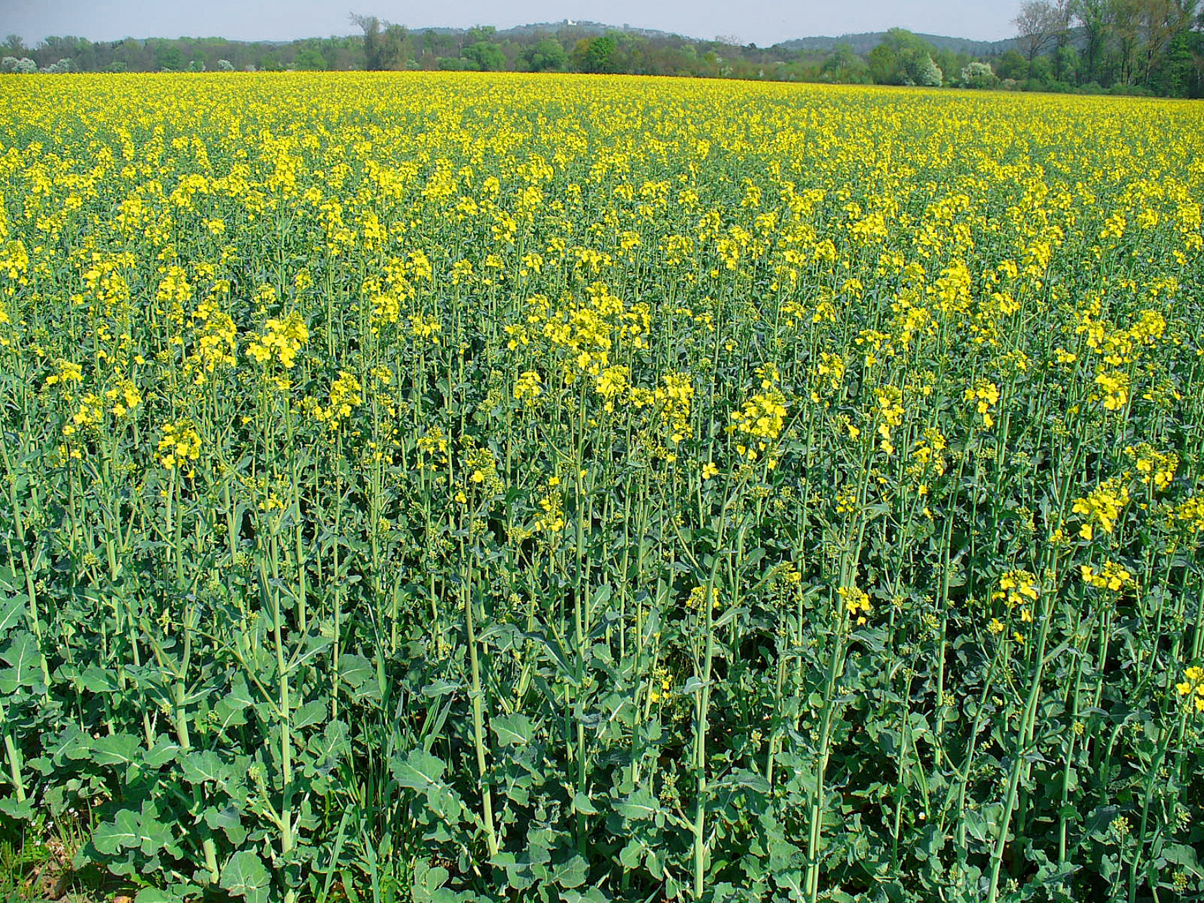 Brassica napus, Brassicaceae, Rapeseed, oilseed rape, habitus; Stutensee, Germany. The fresh plants are used in homeopathy as remedy: Brassica napus (Brass.)